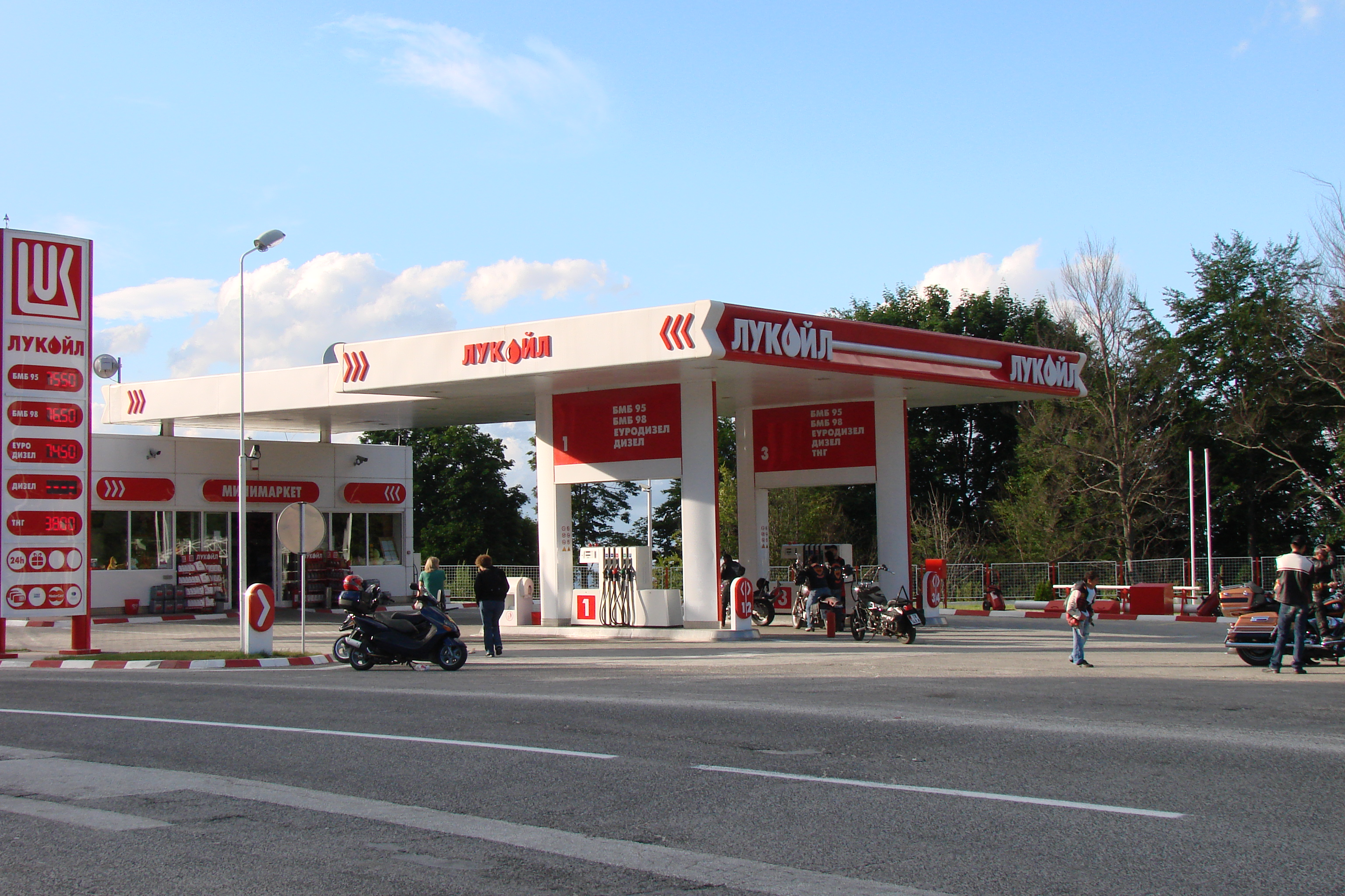 Russian gas station in Macedonia (LUKOIL)